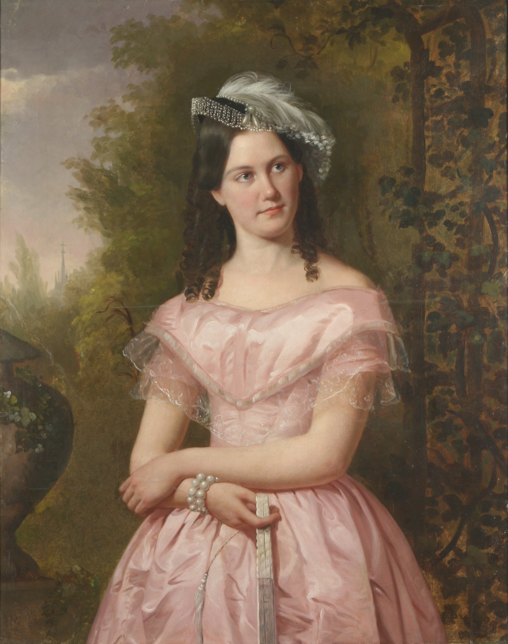 Portrait of Julia Dean by Joseph Oriel Eaton, without frame